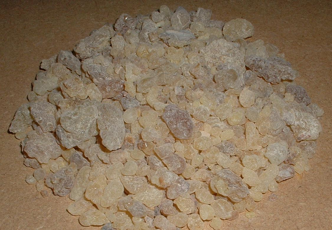 100g of frankincense resin. This material comes from Dhofar region of Oman and is absolutely the finest Frankinsence in the world.